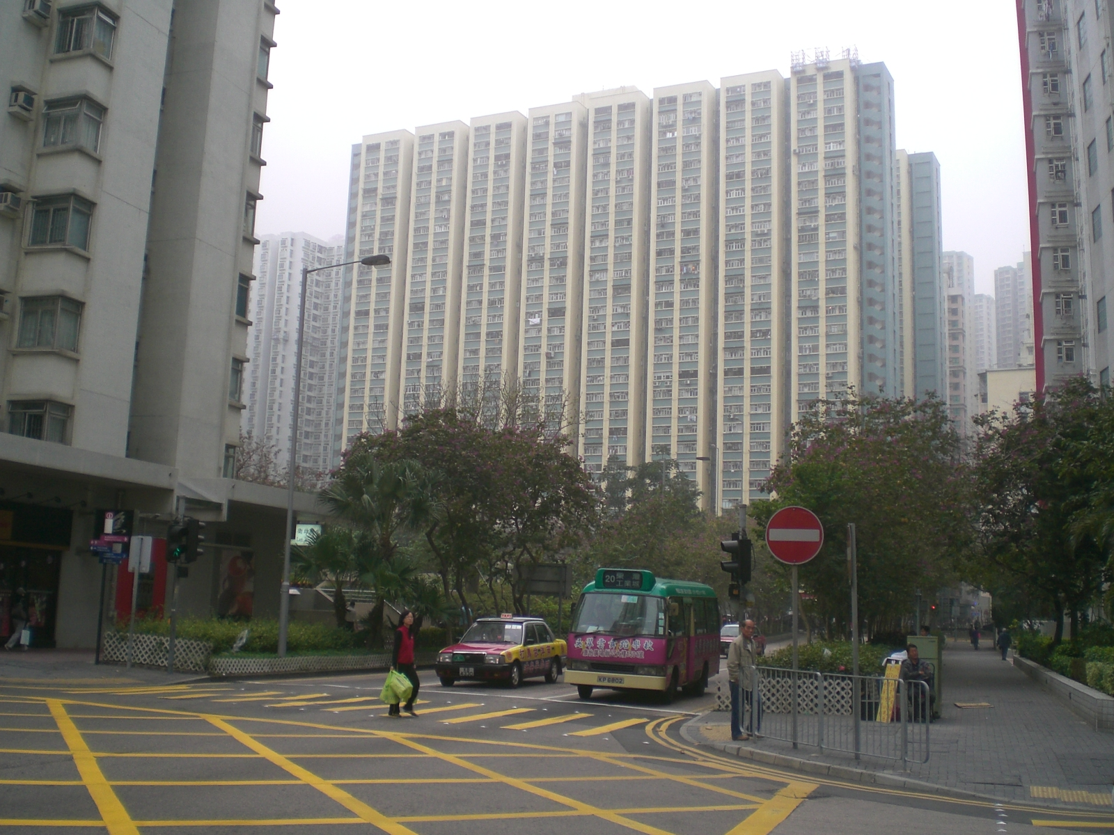 香港東區 西灣河 鯉景道 太康街 眺望zh:太安樓